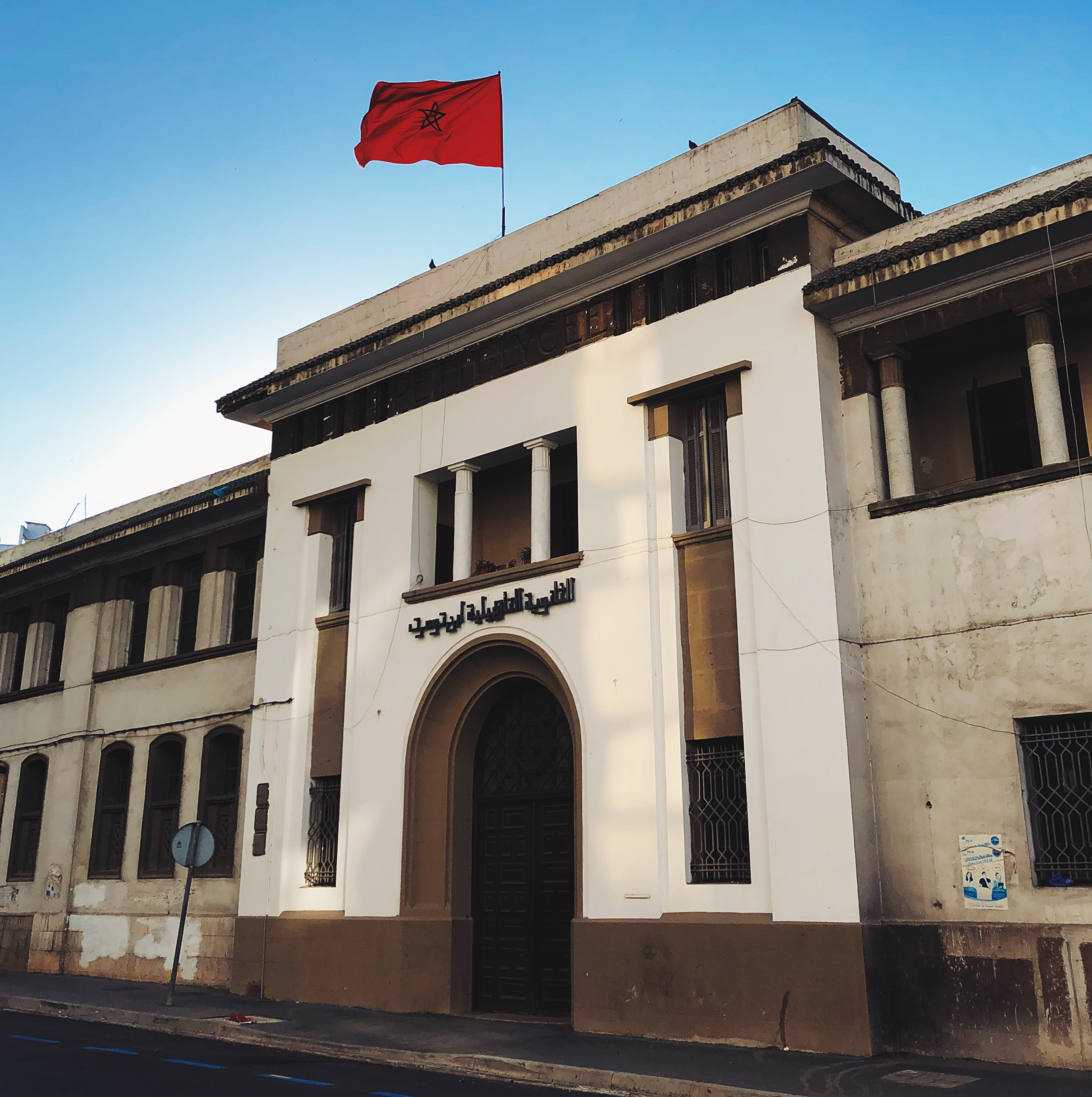 Façada of the Ibn Toumart Preparatory Secondary School in Casablanca, Morocco, 2019